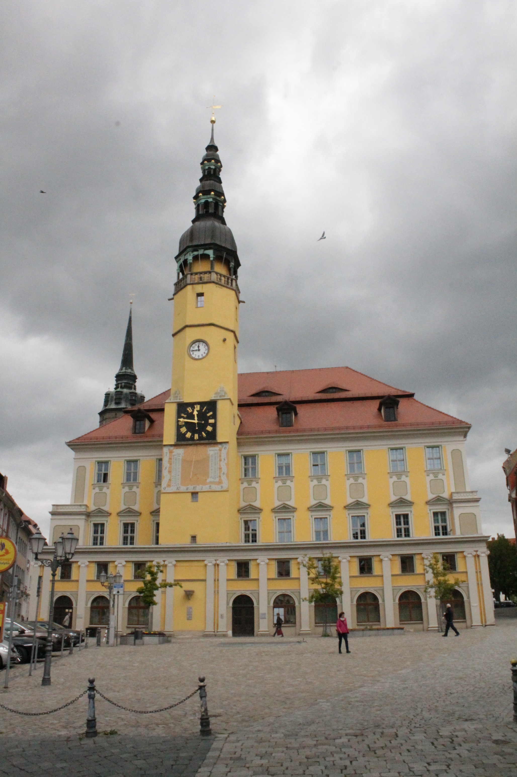 Bautzen town hall